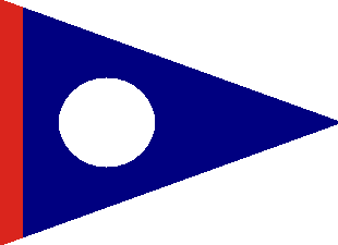 Union Army I Corps, 2nd Division Badge, 2nd Brigade